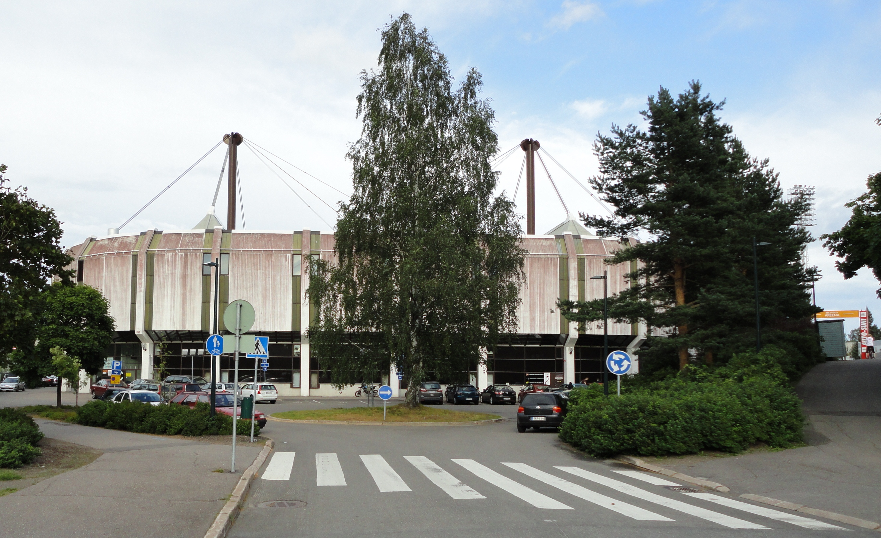 Ice hockey arena, Kouvola, Finland